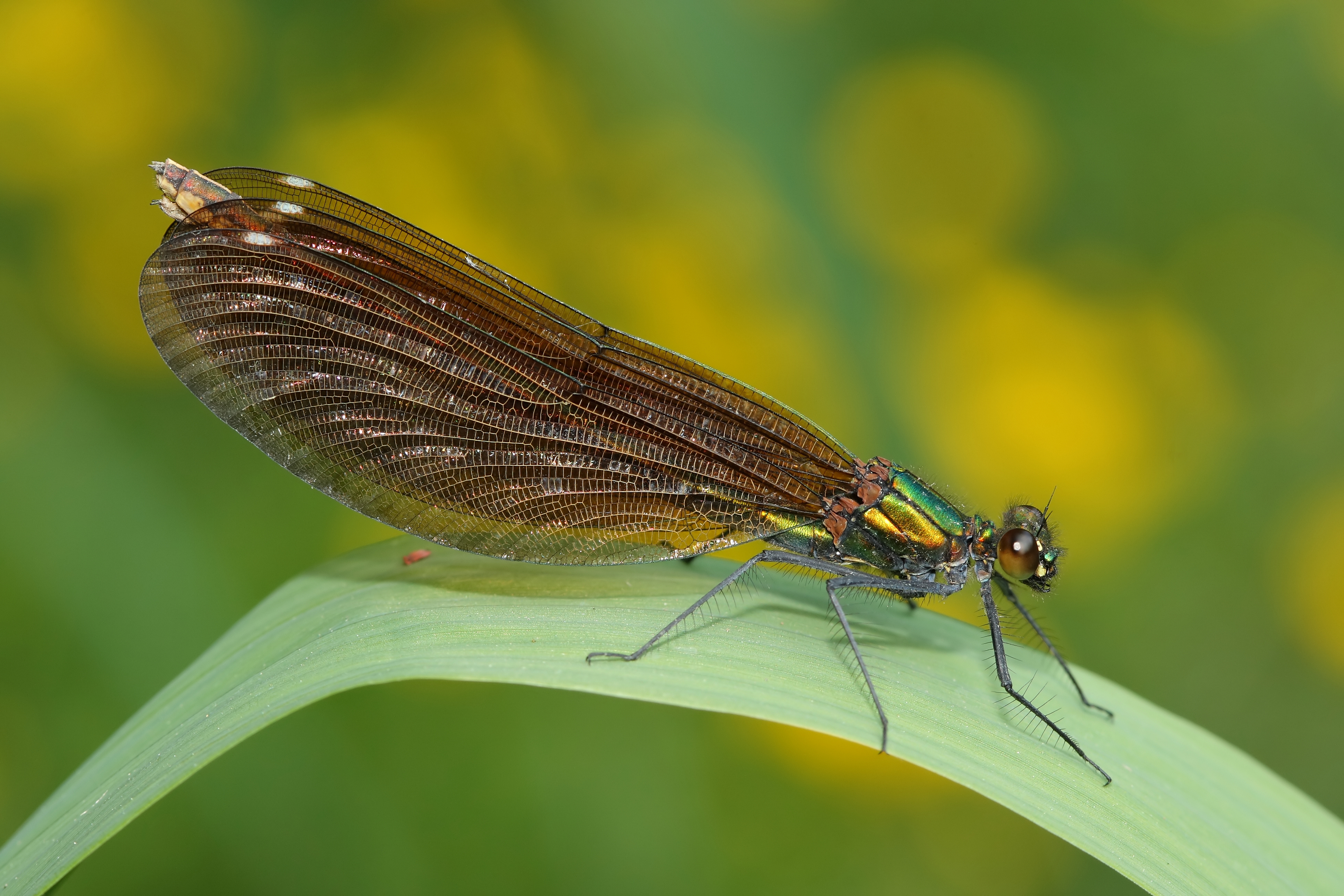 A damselfly (Calopteryx virgo), taken on a bank of the ru de la Bosse (a ru is a small brook which comes from or ends up on a river) near Bussy-Saint-Martin, France.